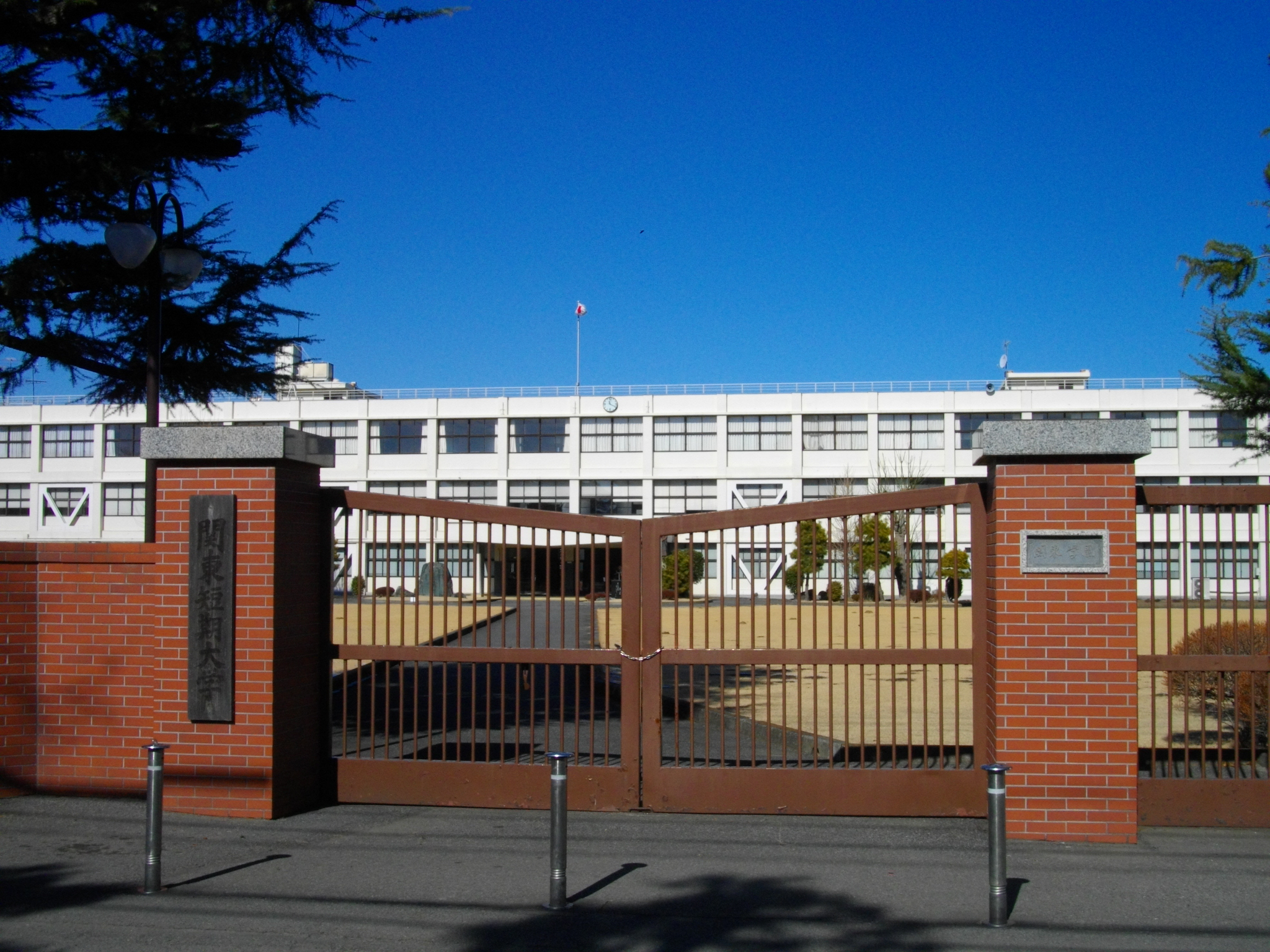 Kantoh Junior College